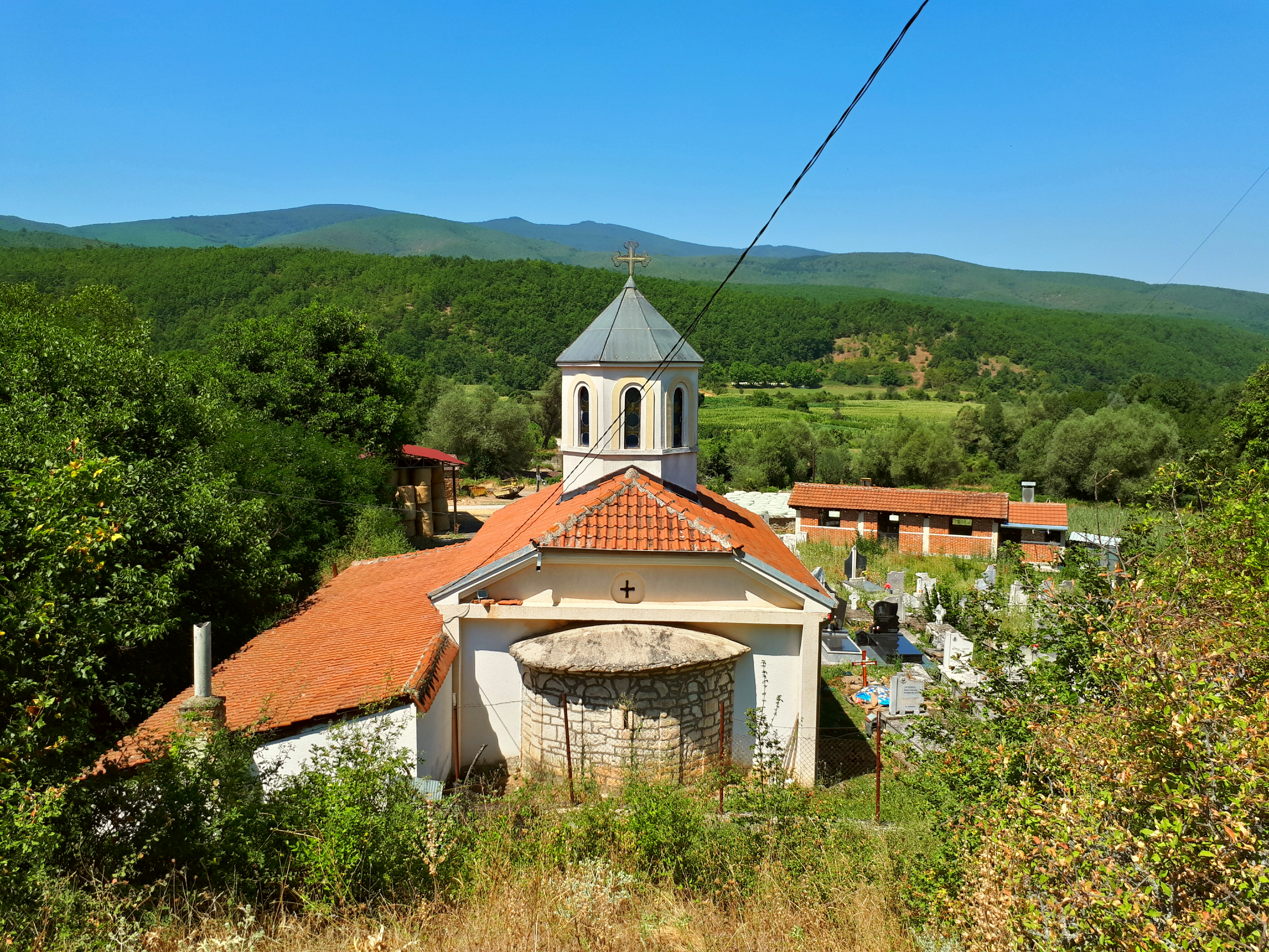 Part of the Veloexpedition in 2017